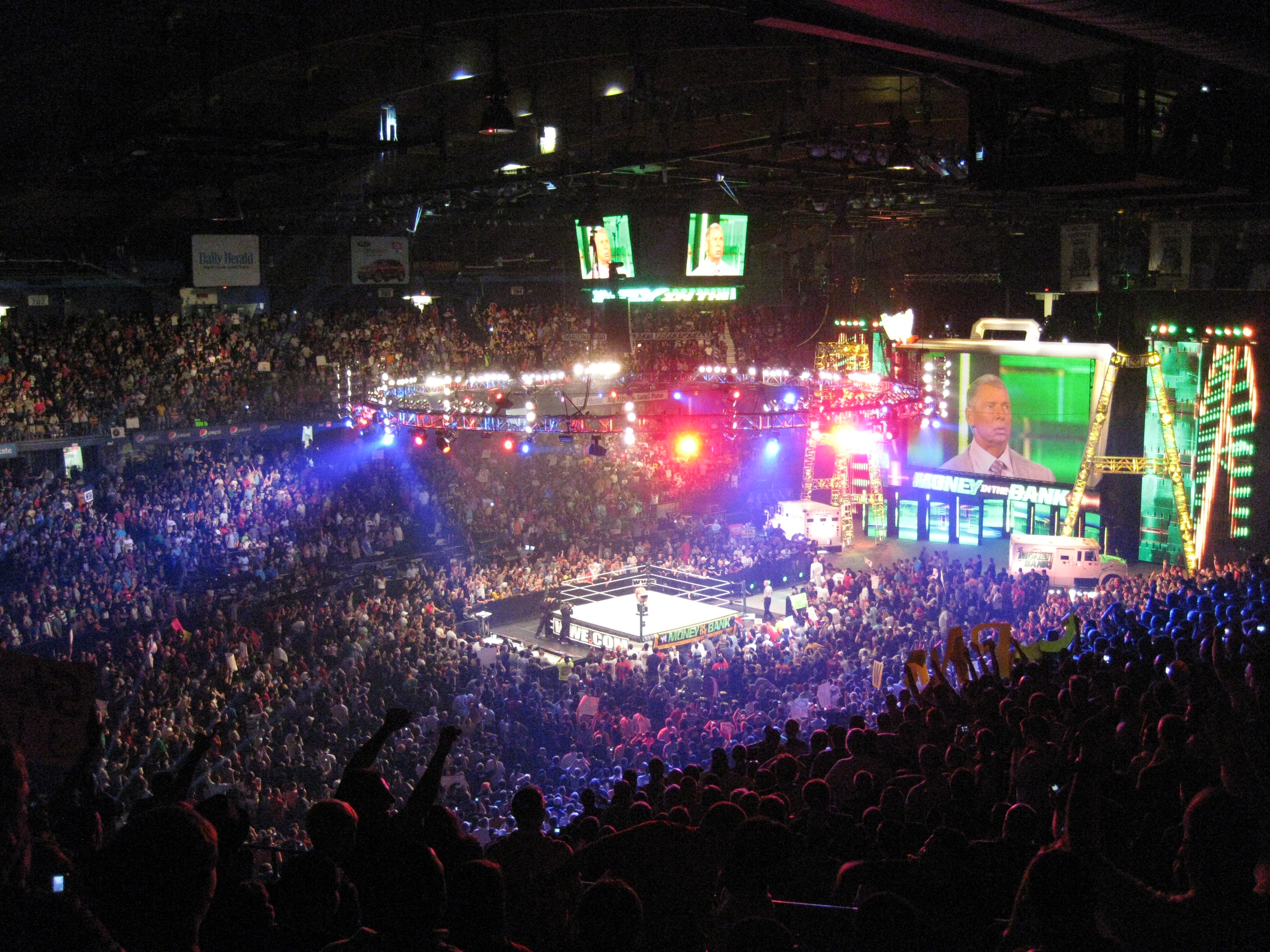 the MITB set